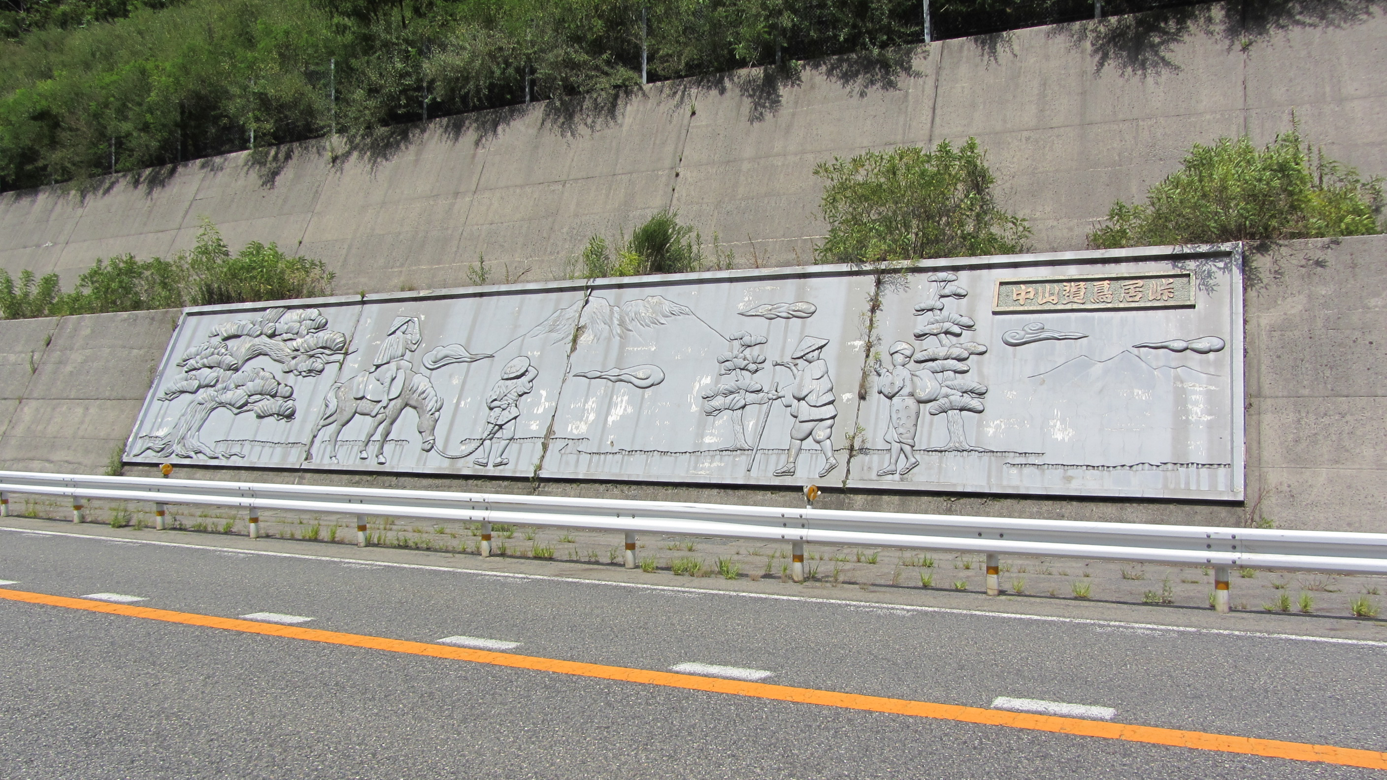 国道19号の車窓から